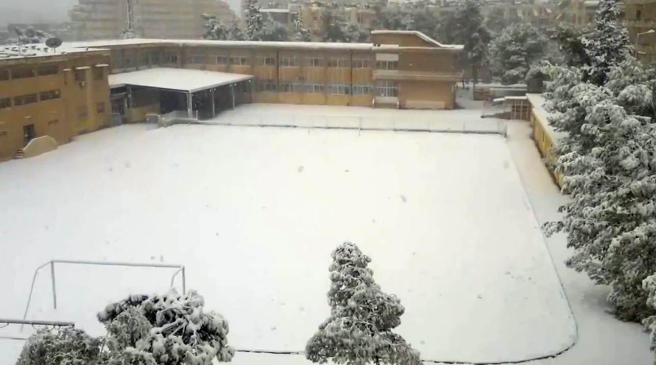 Mekhitarist Armenian Catholic School, opened in 1936, Aleppo, Syria.